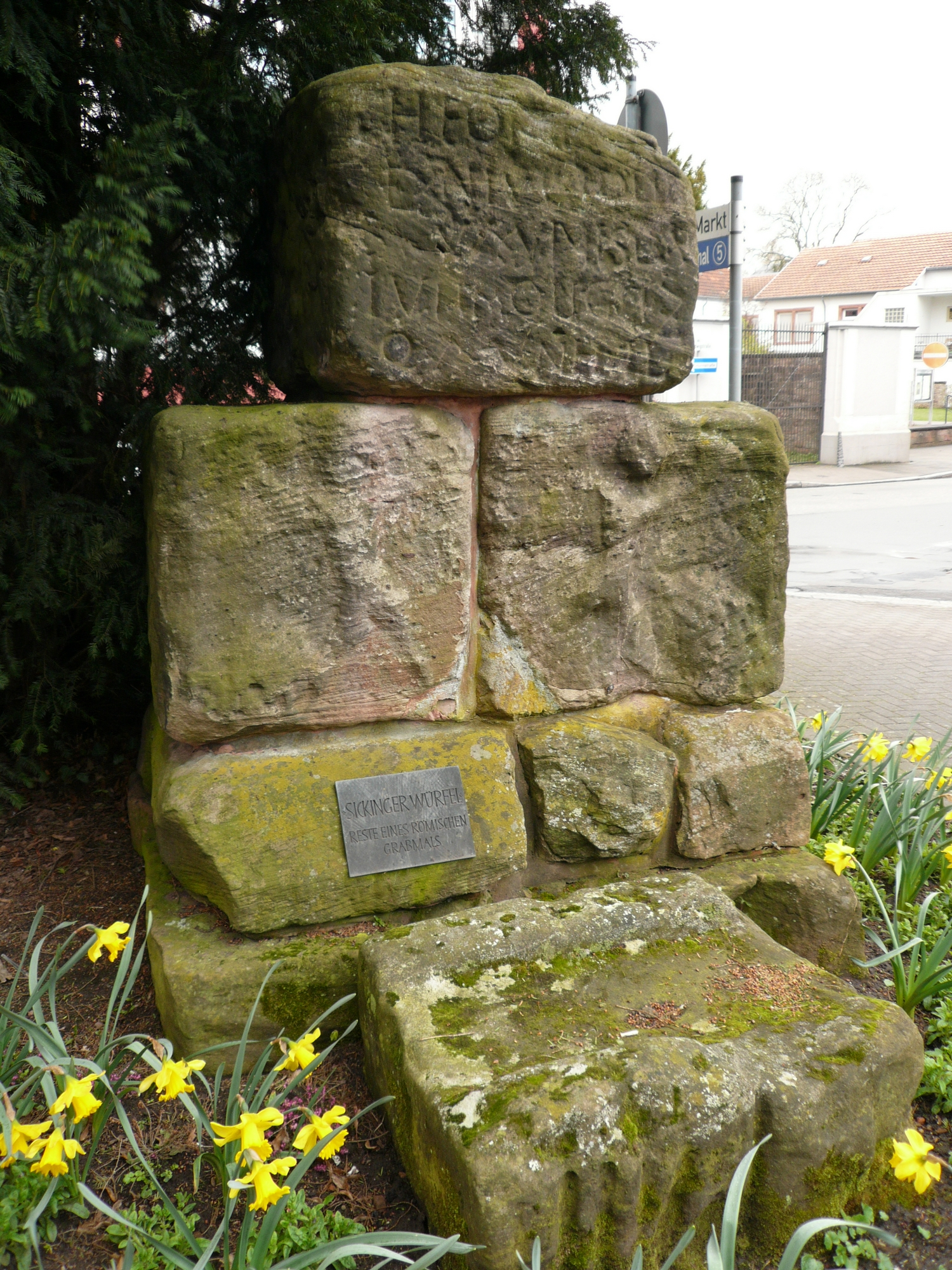 Sickinger Wuerfel, remains of a Roman tomb in the town of Landstuhl